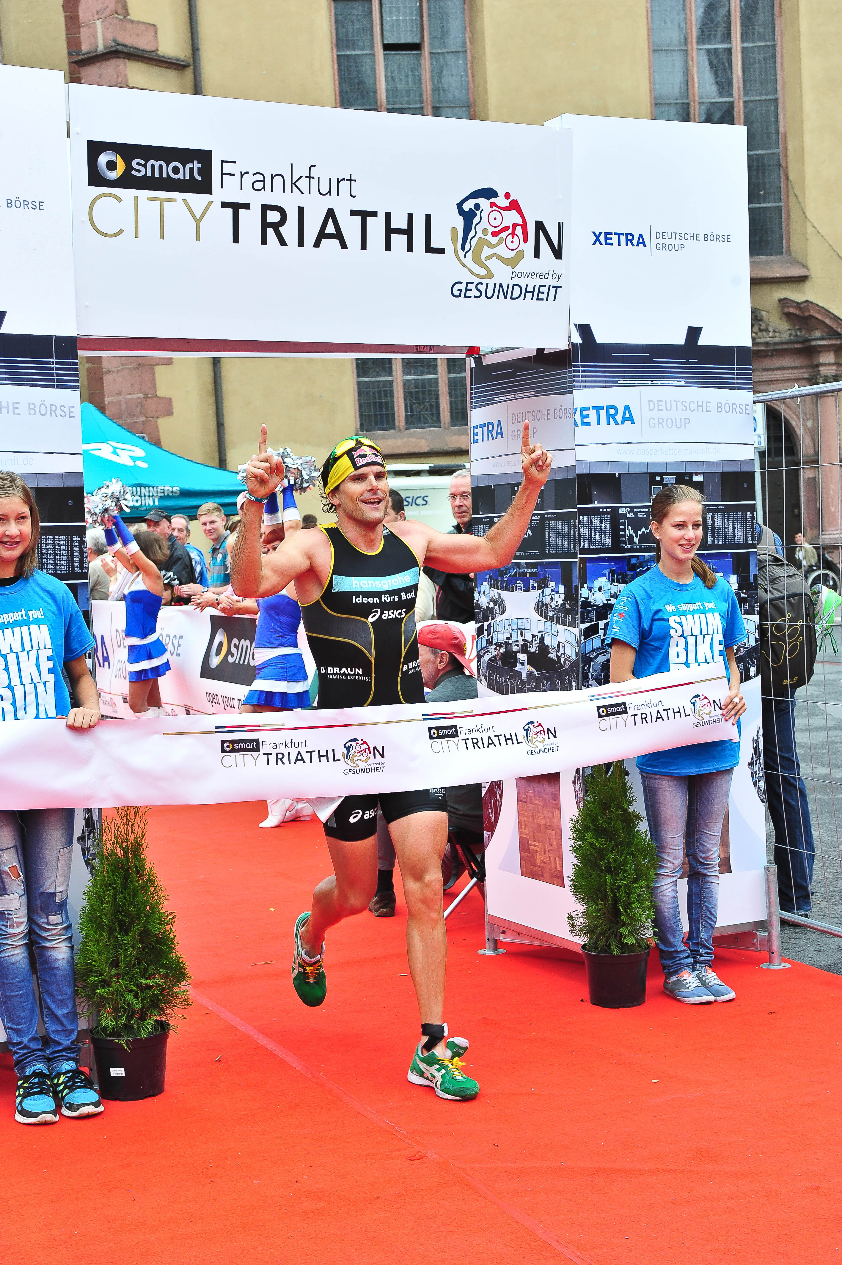 Daniel Unger at the Frankfurt City Triathlon 2012 (by uliphoto.de)